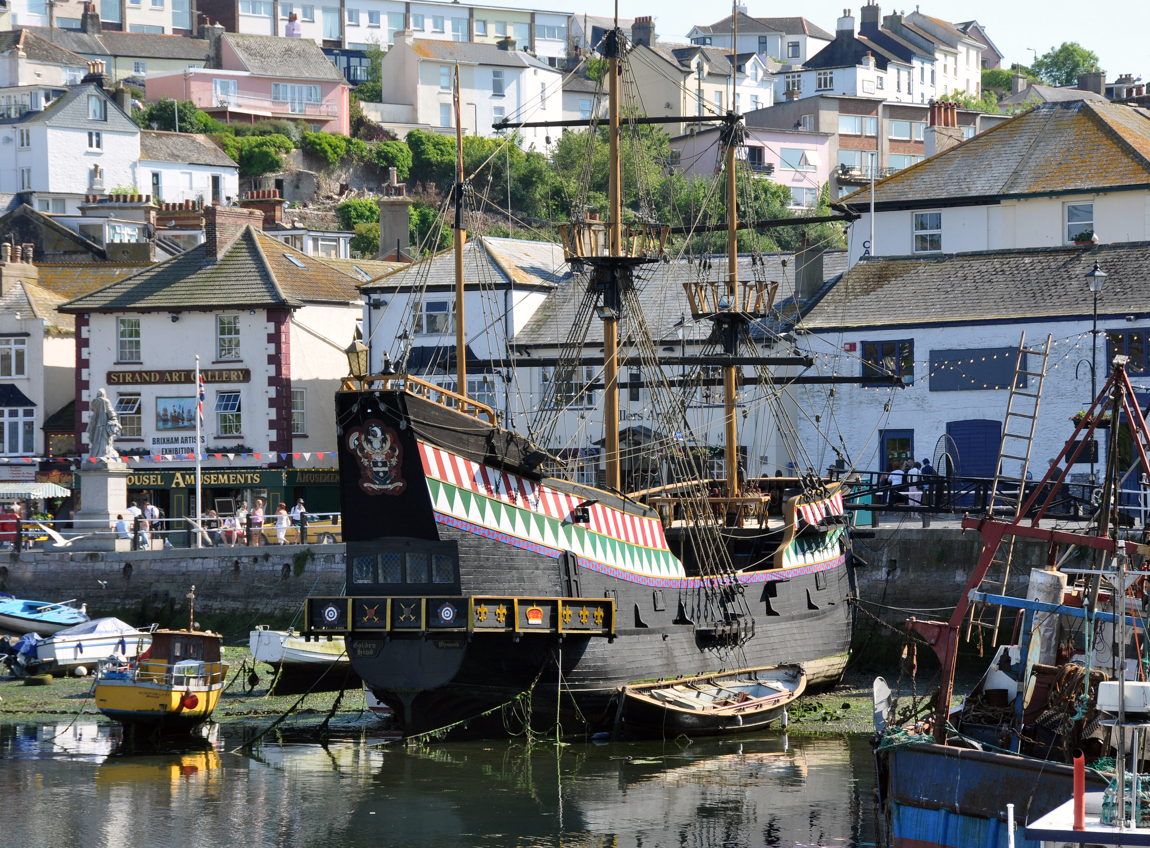 The replica Golden Hind in Brixham habour, Devon, UK